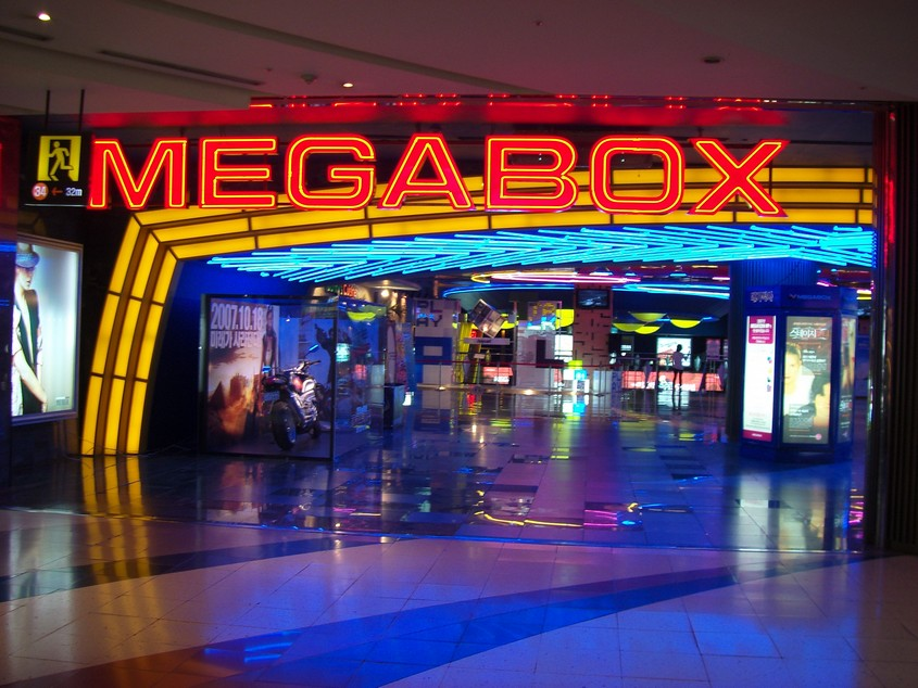 COEX Mall